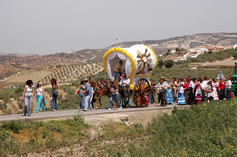 Romería in El Saucejo, Seville.